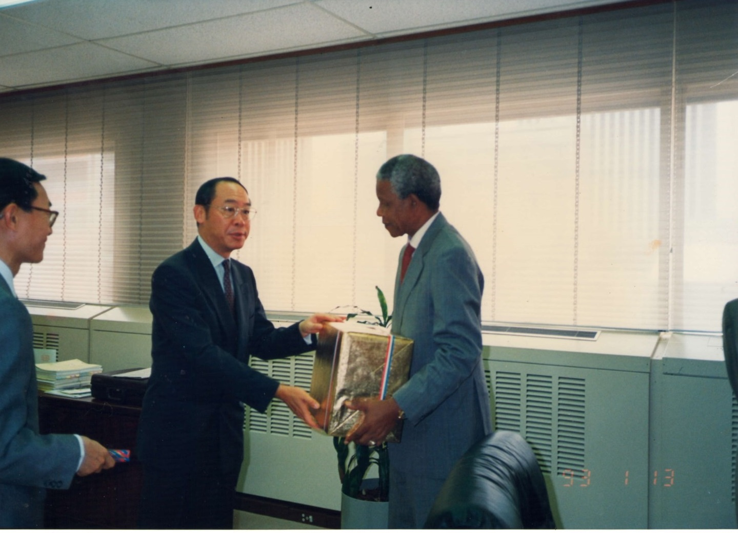 Chien-Mandela, 1993-06